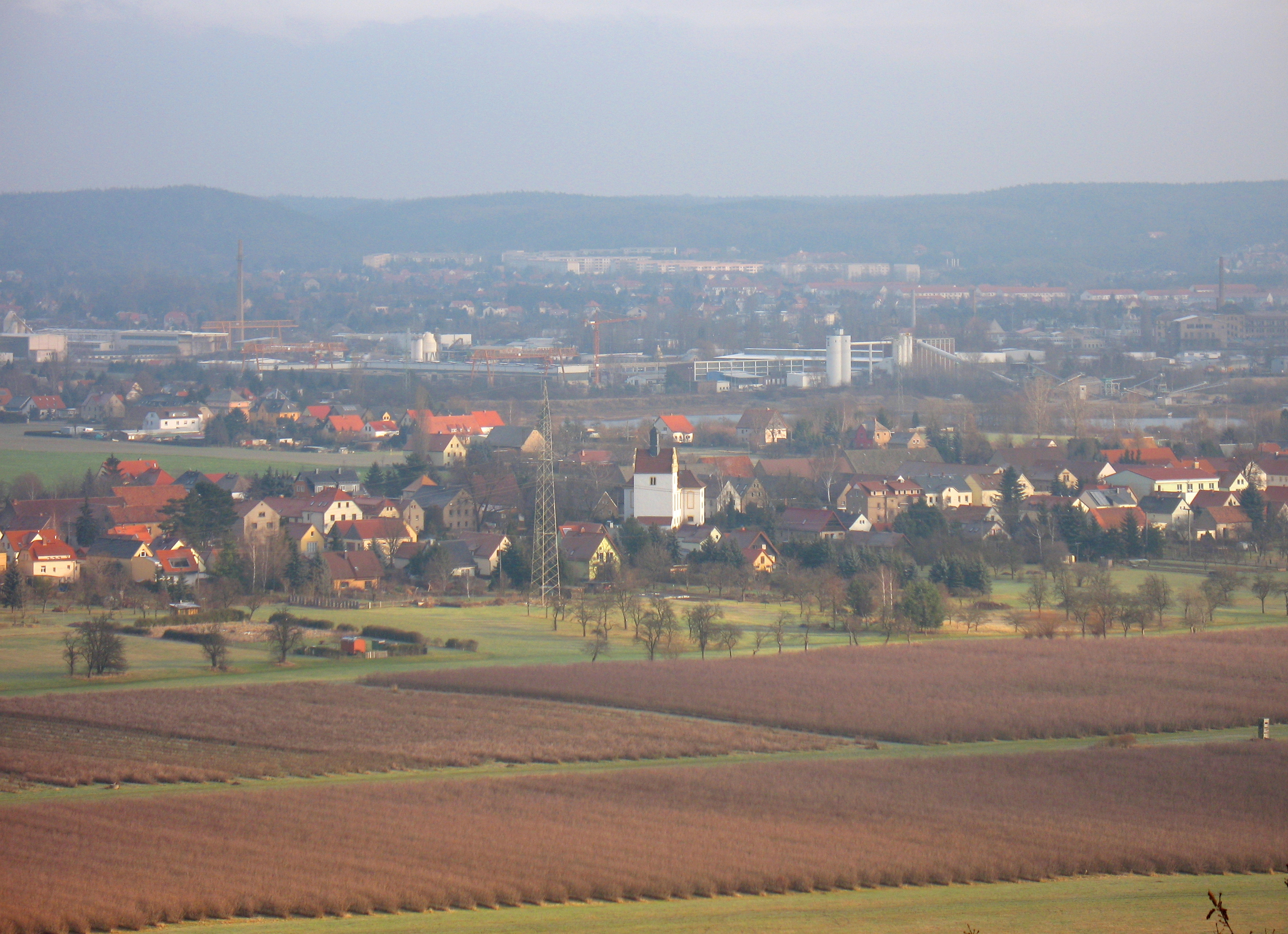 view over the Elbe river to Brockwitz (Coswig), taken from a hill close to Schloss Scharfenberg